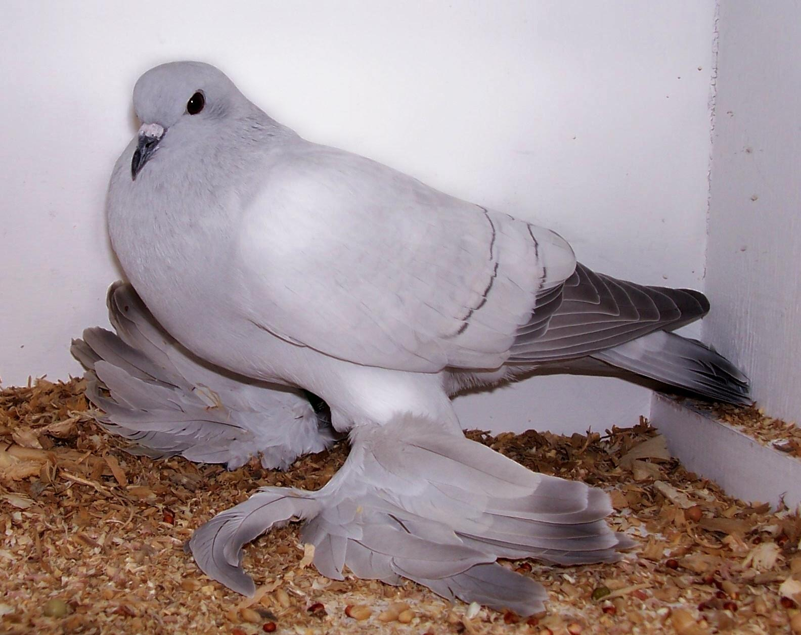 Champion Ice Pigeon at Queensland State Show 2008 (Australia). This bird is an old hen owned by Haden Walsh.